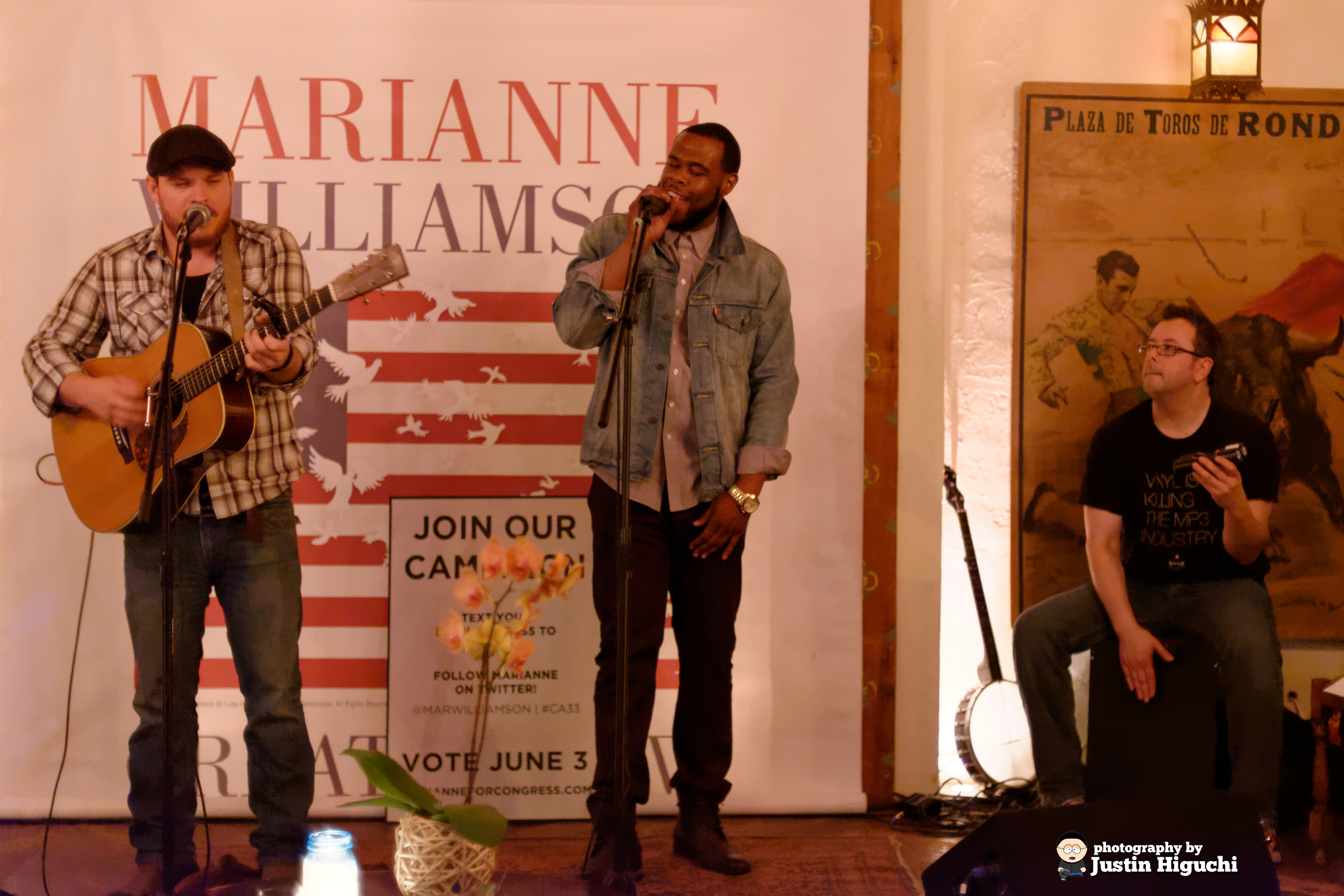 Summer Concert Series artist showcase at 41 Ocean Club in Santa Monica California on Thursday April 24th, 2014. Featuring Anchor & The Bell (Noah Needleman and Emily Herndon), Katie Cole, Connie Lim, Moi Navarro, Justin Hopkins, Angela Wood, Carmen and Camille, Clayton Severson, Sens Musiq, Danielle Withers, Kate Farwell, and others. The showcase was put together by Noah Needleman and Joe Simpson, and took place immediately following a rally for political candidate Marianne Williamson (hence the banner on stage in most of the photos). This was a very challenging shoot, since the stage lighting at 41 Ocean is norotious for being excessively dim. It is one of the most difficult venues in L.A. to take decent live music photos at... unless you are standing less than 5 feet away from the artists. Consequently, most of my photos are not quite in focus, since most of my shots were from 15-30 feet away.